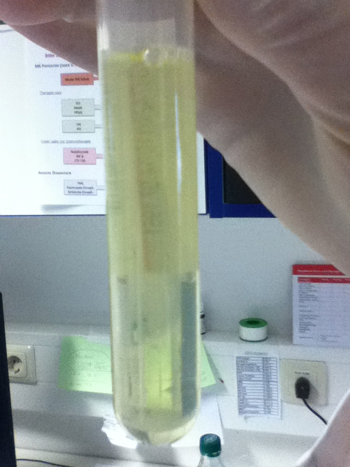 Xanthochrome Cerebrospinal Fluid